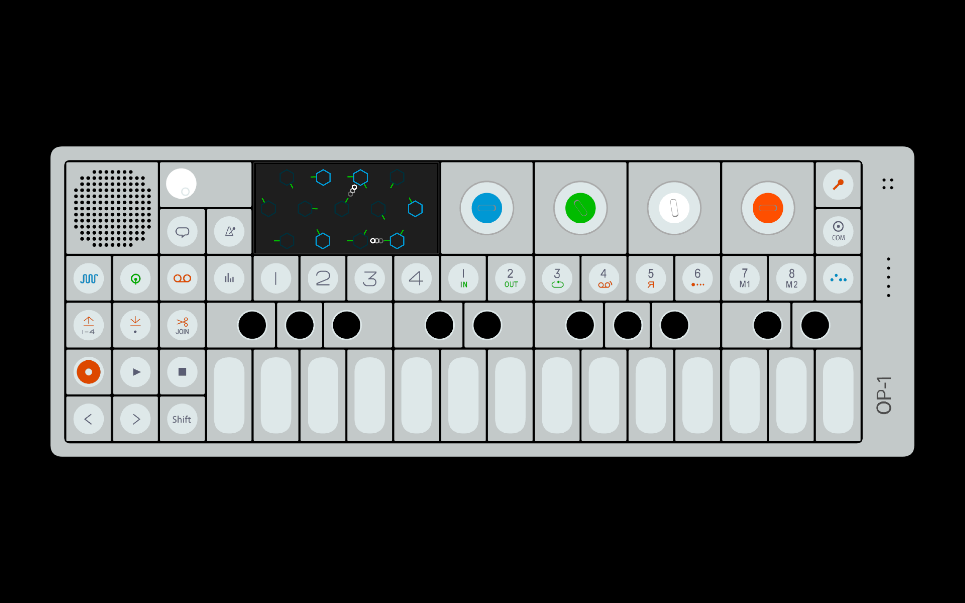 This is a concept of a sequencer I hope to develop for the OP-1.